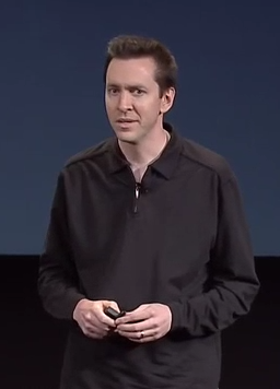 Scott Forstall speaking at iPhone Software Roadmap event on 6 March 2008